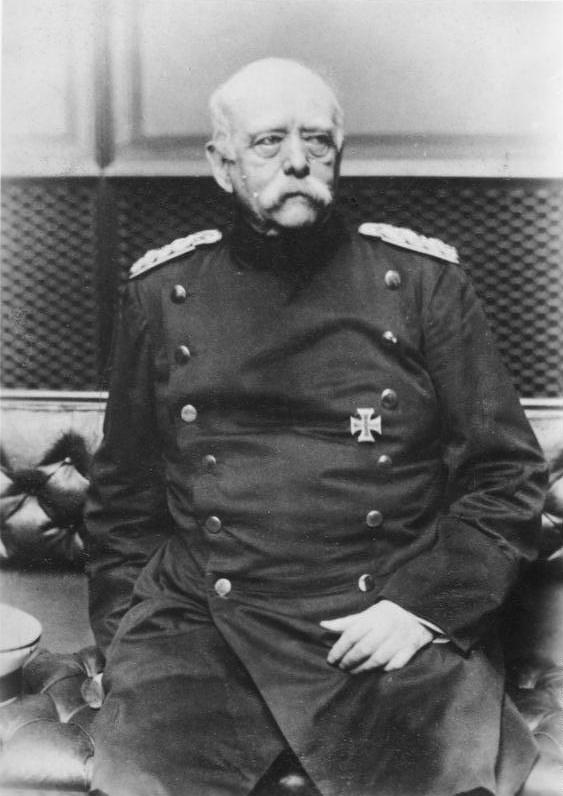 Otto von Bismarck-Schönhausen (Reichskanzler of Germany, 1871 - 1890), depicted as General of the German Army, in 1889.